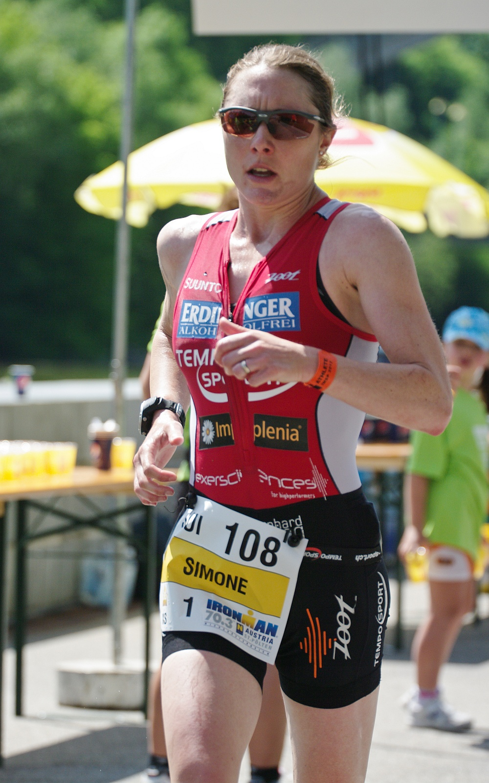 Swiss triathlete Simone Brändli in the Ironman 70.3 Austria on 20 May 2012 in St. Pölten.